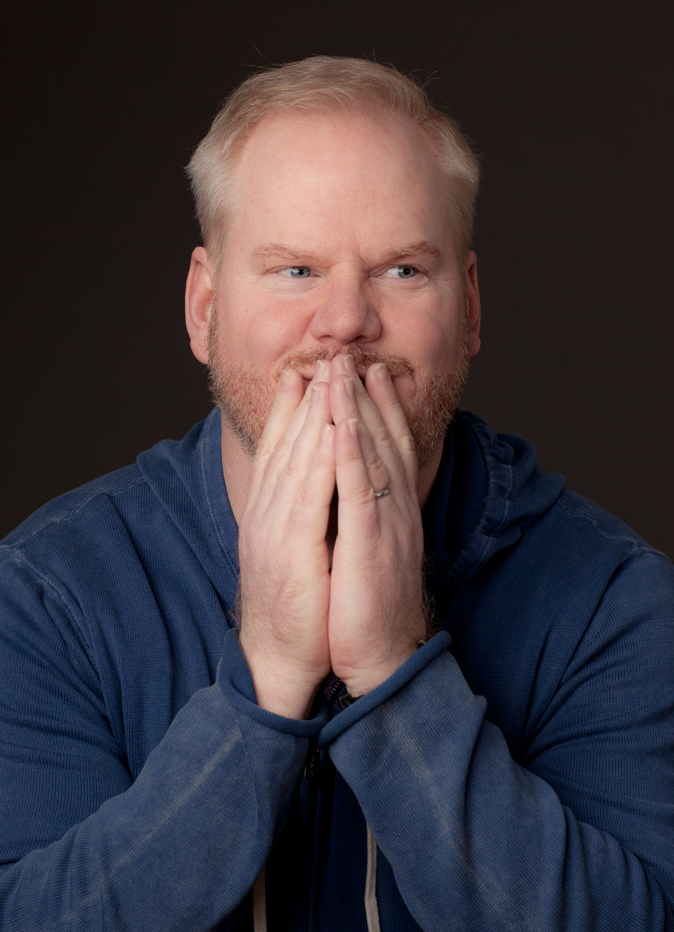 US comedian Jim Gaffigan making a goofy excited face. This is a representation of his inner voice coming through which is an integral part of his comedy routine.